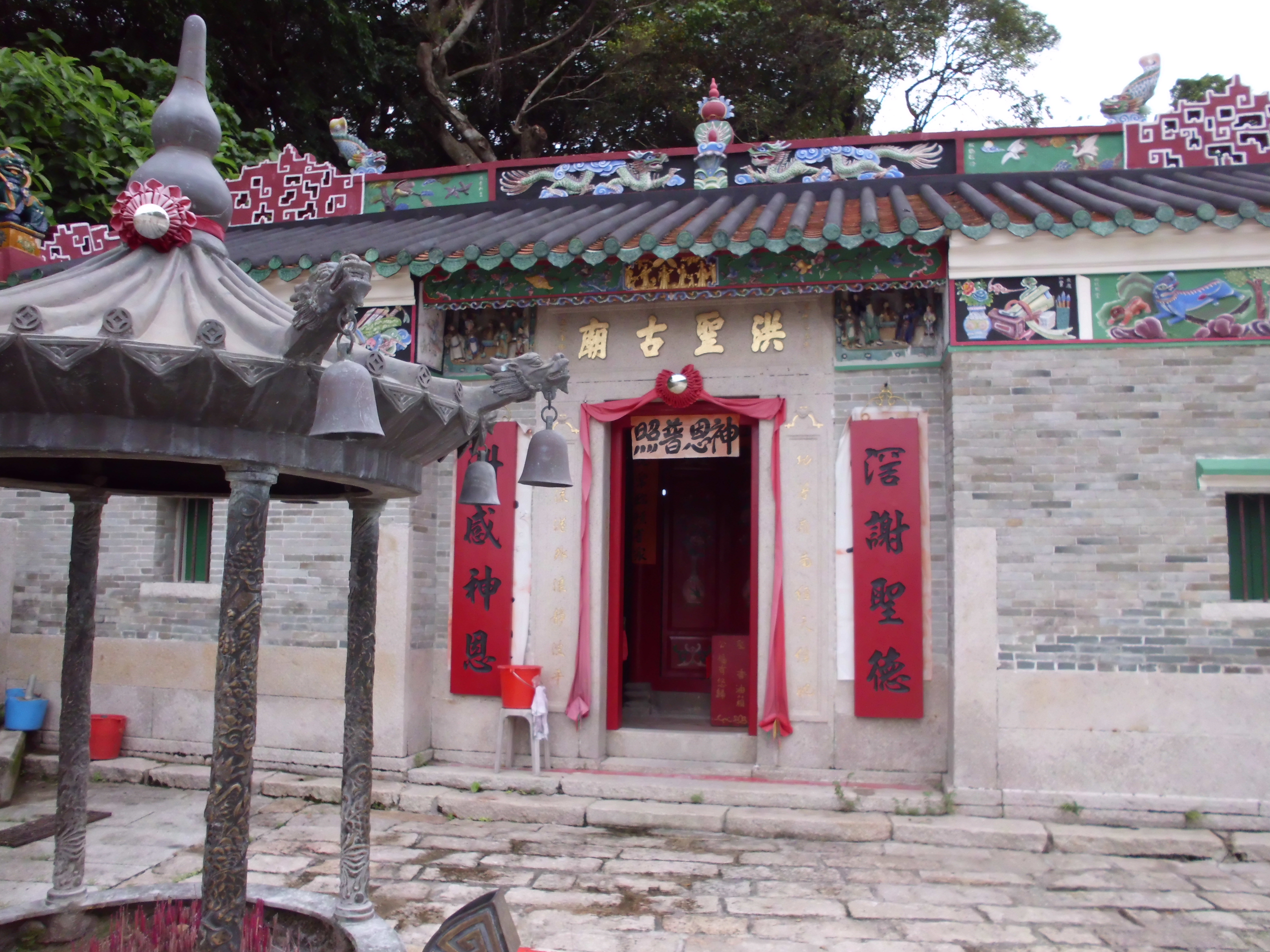 Hung Shing Temple, Kau Sai Chau.